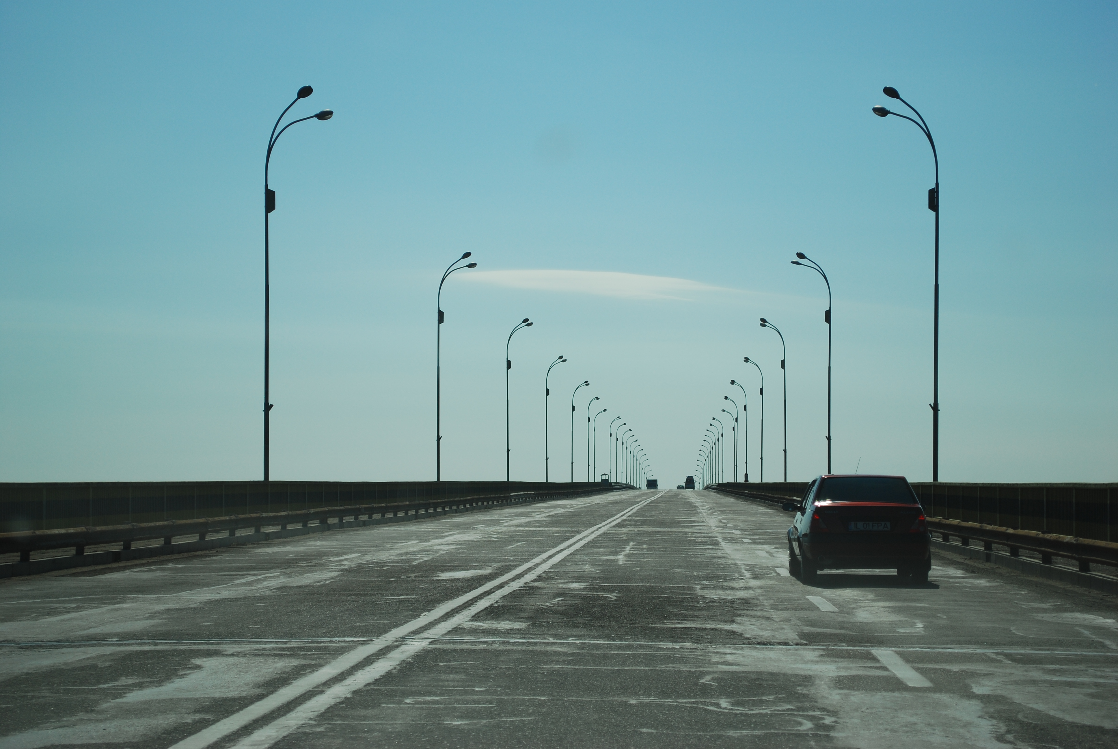 Giurgeni-Vadu Oii road bridge across the Danube